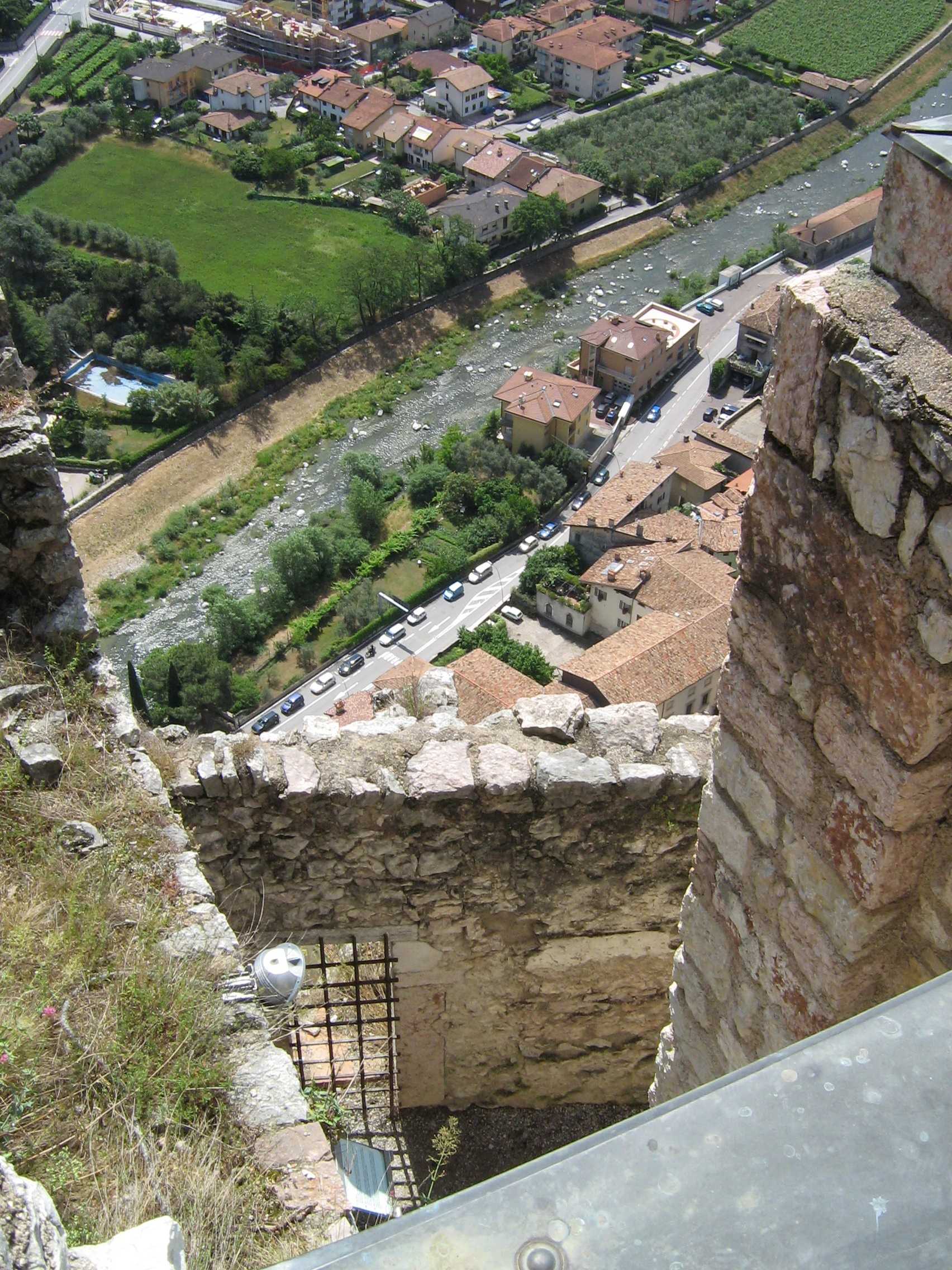 view in the valley of sarca in Arco Italy